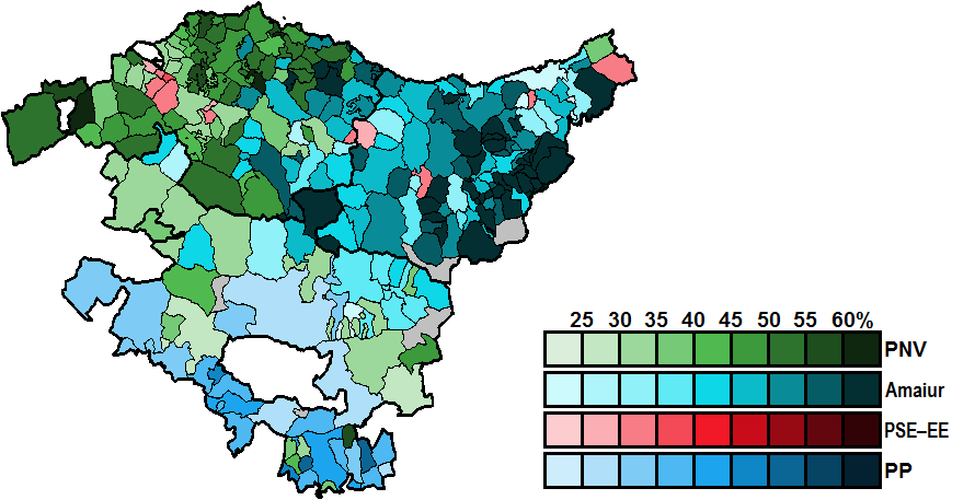 Most-voted party in Basque Country municipalities, showing vote share obtained, in the Spanish general election, 2011.